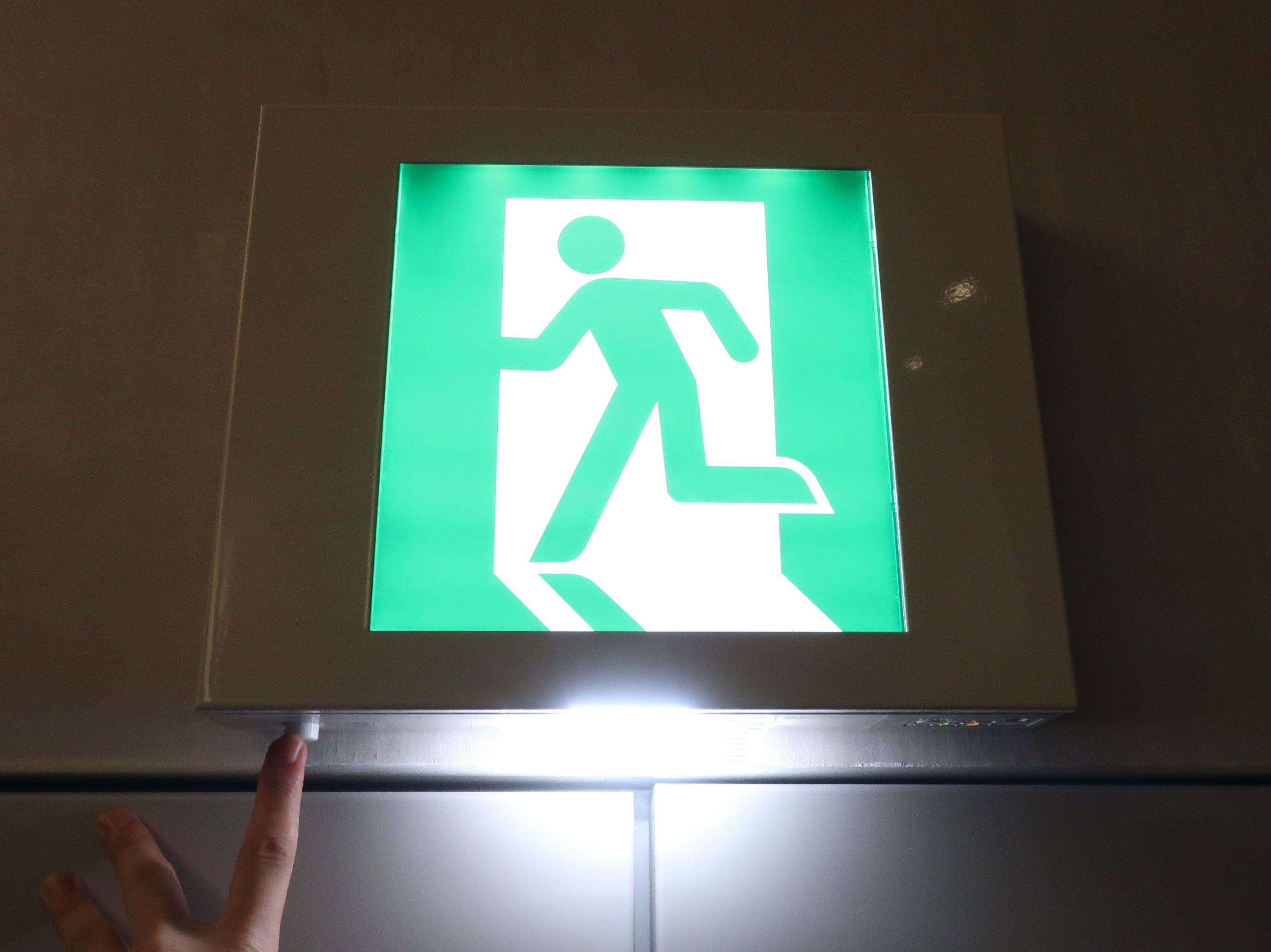 Exit sign with xenon strobe light.